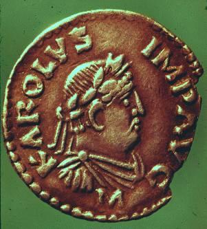 Obverse of a coin of Charlemagne. Minted in 812/814. Mint unknown, may be Melle, nowdays in Germany KAROLVS IMP AVG, laureate bust right in ancient Roman style, M in exergue. There are many different reverses (not shown here): a tetrastyle temple (and legend XRISTIANA RELIGIO) a city gate A ship coining implements AG, about 1.6 gramms cfr. MEC I, 748-9